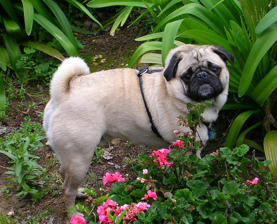 Pug of Christian Watts & Maureen Dillon via digital camera